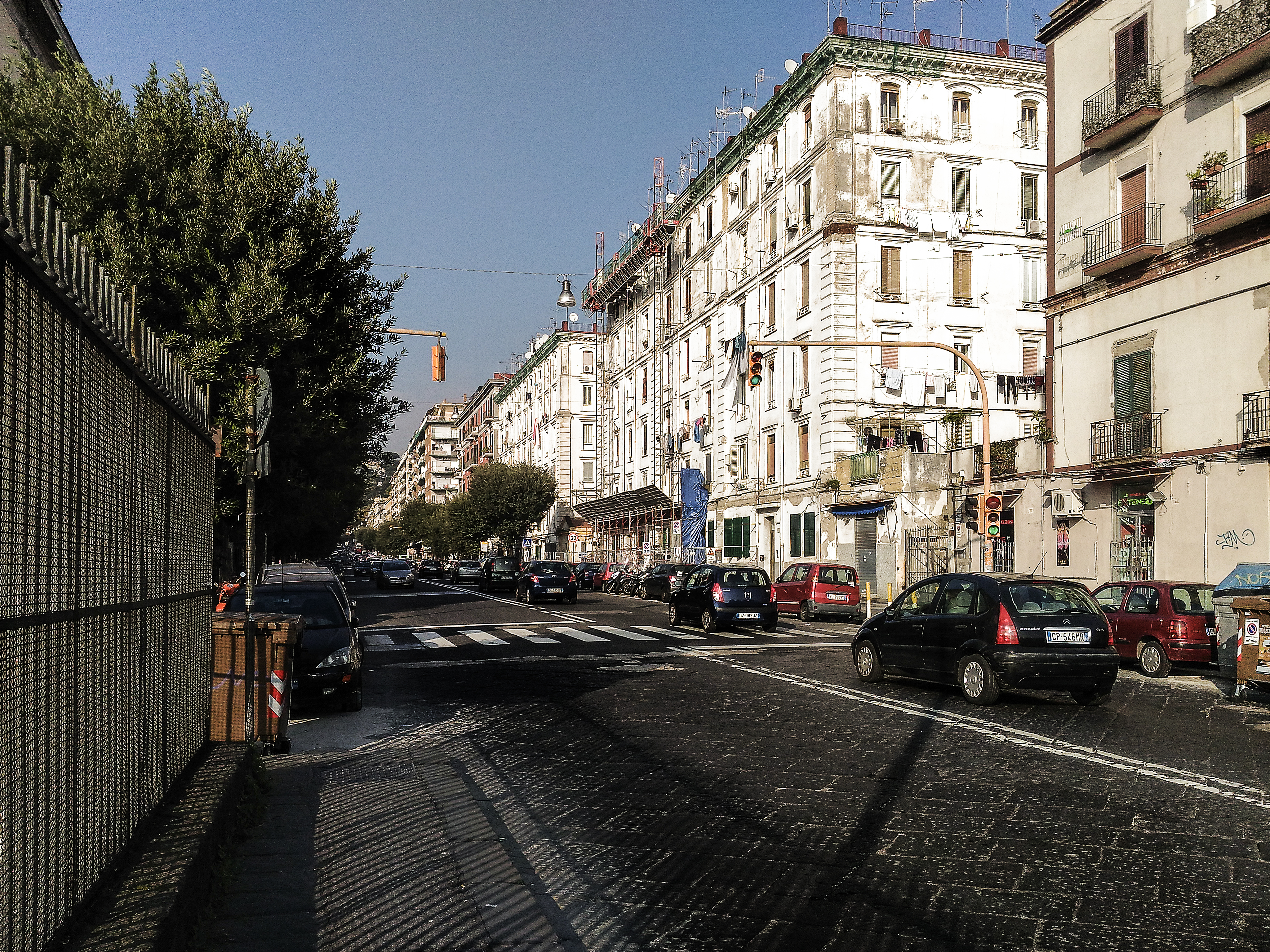 Complesso di edilizia popolare "La Filantropica", 1865